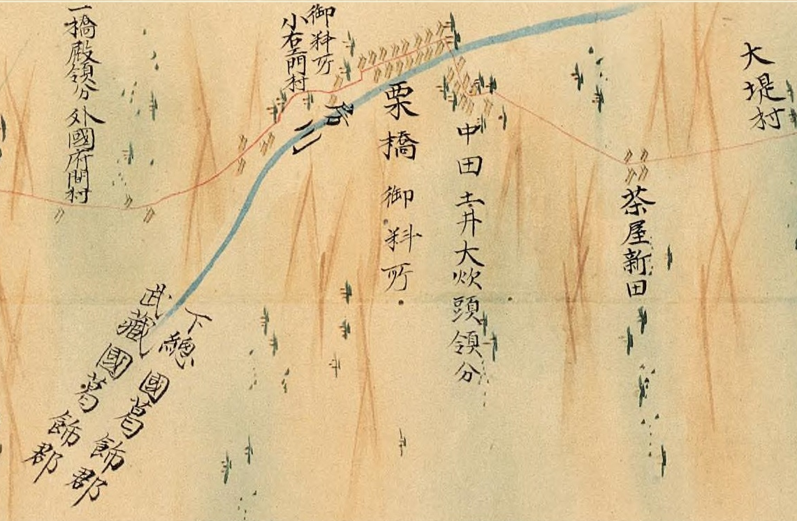 National Diet Library Digital Collection This image is available from the website of the National Diet Library This tag does not indicate the copyright status of the attached work. A normal copyright tag is still required. See Commons:Licensing for more information. English | 日本語 | +/−